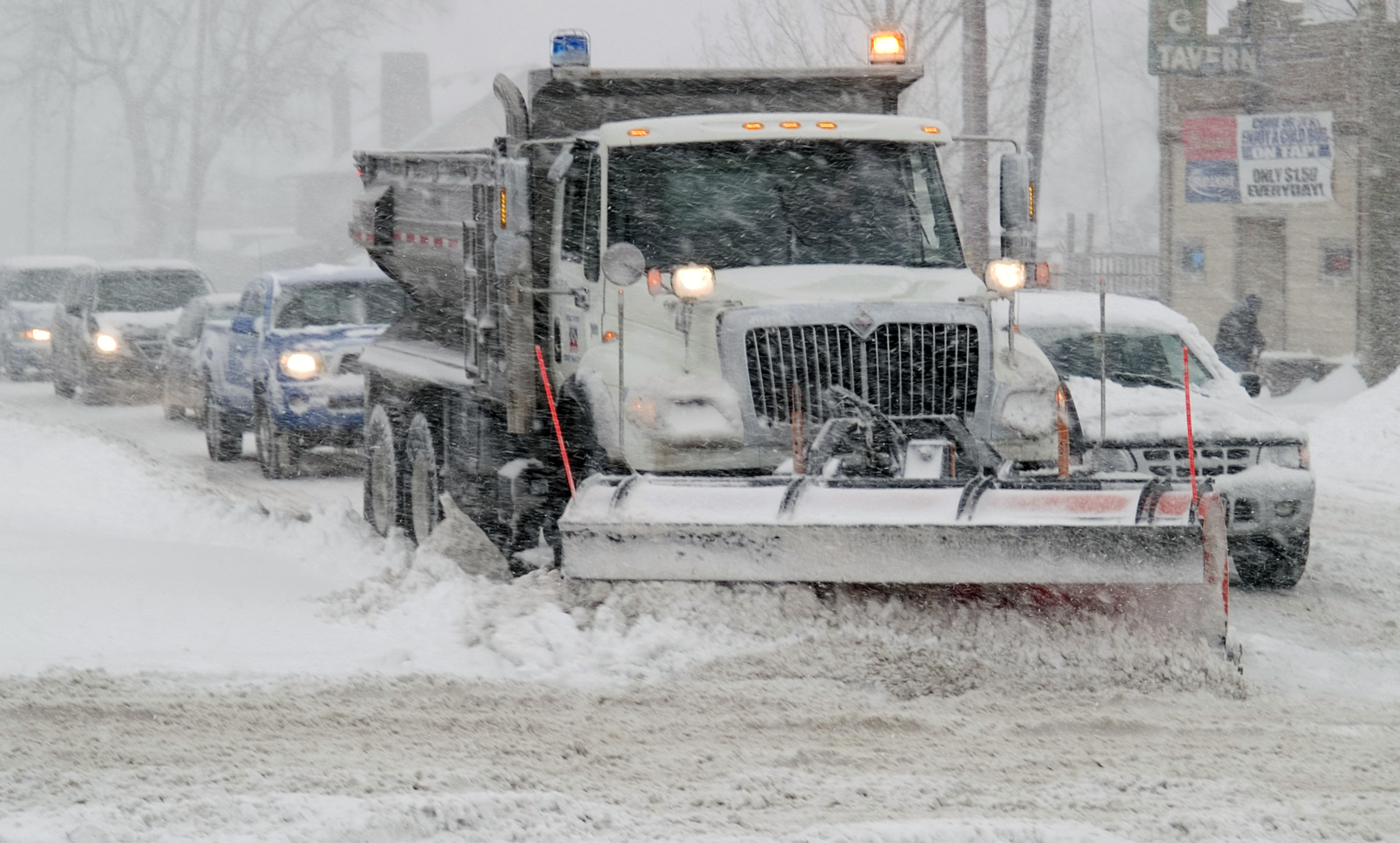 Denver, Colorado, December 20, 2006 - Plows work to keep street passable as a blizzard hits Denver with up to 28 inches of snow. FEMA/Michael Rieger